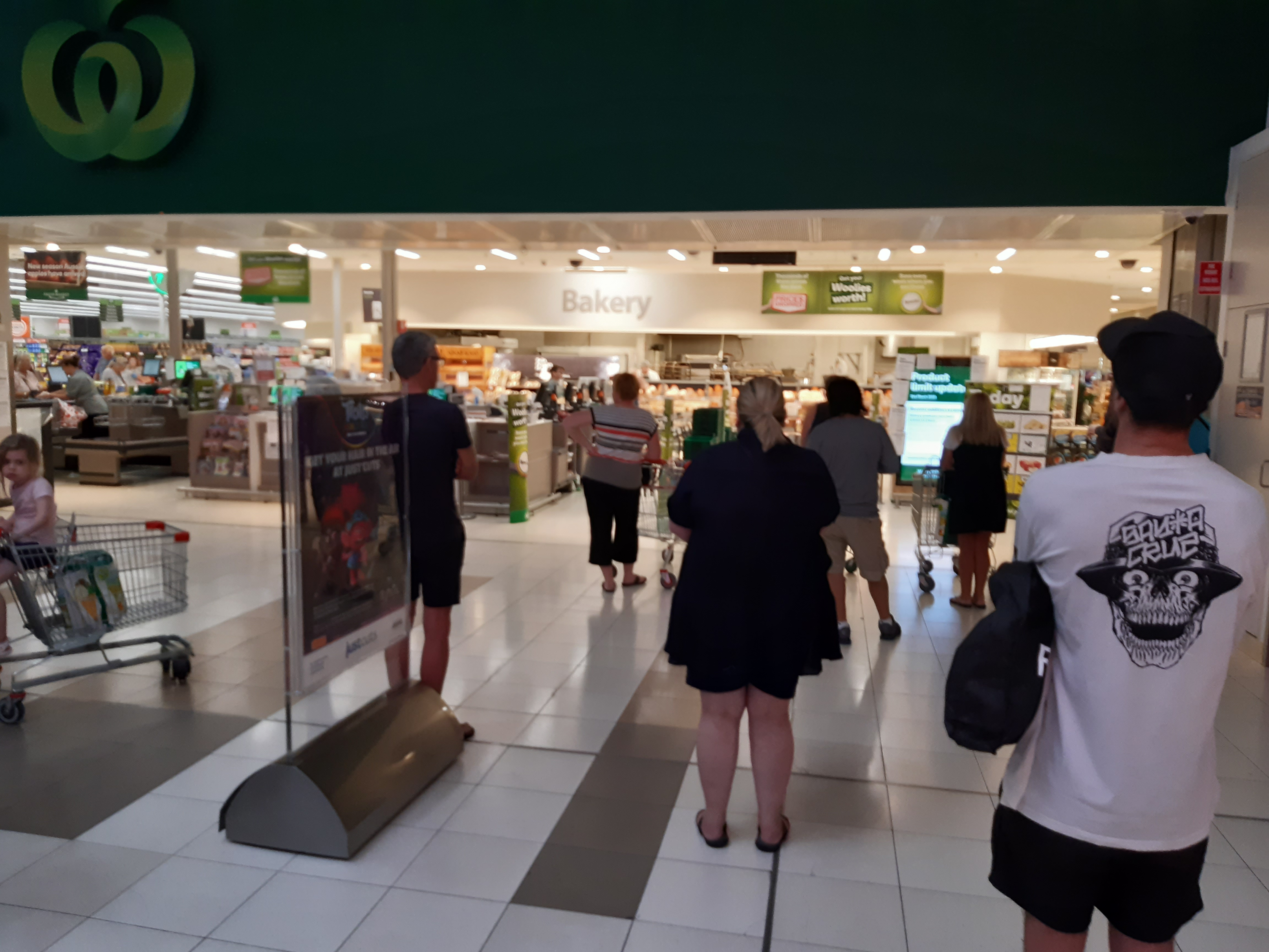 Rockingham City Shopping Centre line up at opening times caused by the effects of the COVID-19 pandemic, Western Australia.